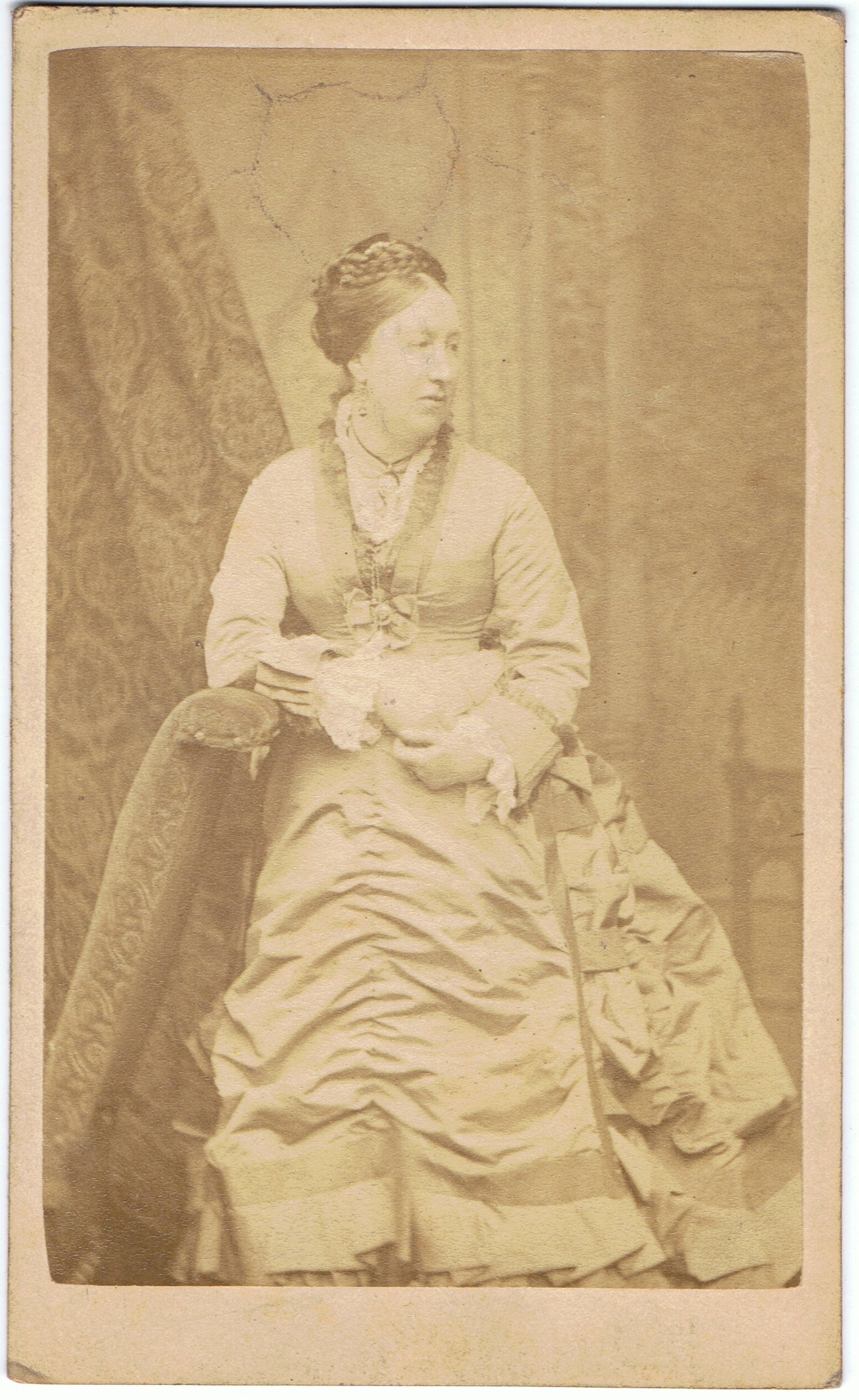 Scan (Oct. 2007) of C19th photo of Emily Mayne, wife to William Fane de Salis. Rodolph 17:28, 19 October 2007 (UTC) probably by Camille Silvy.Rodolph (talk) 10:27, 4 August 2009 (UTC)